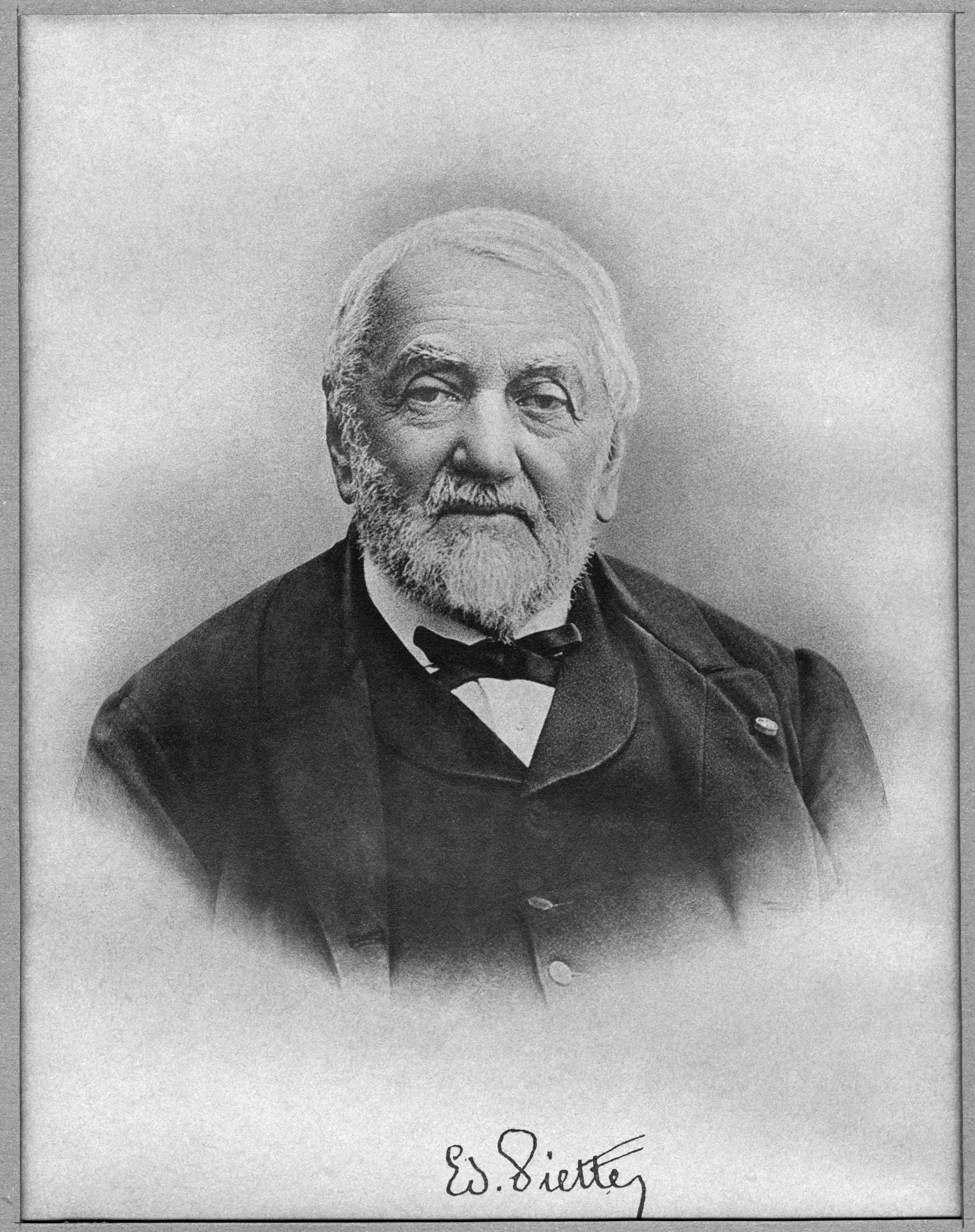 Edouard Piette – French prehistorian (1827-1906) Photographic portrait and autograph Source: Library and Documentation Service Museum of Toulouse